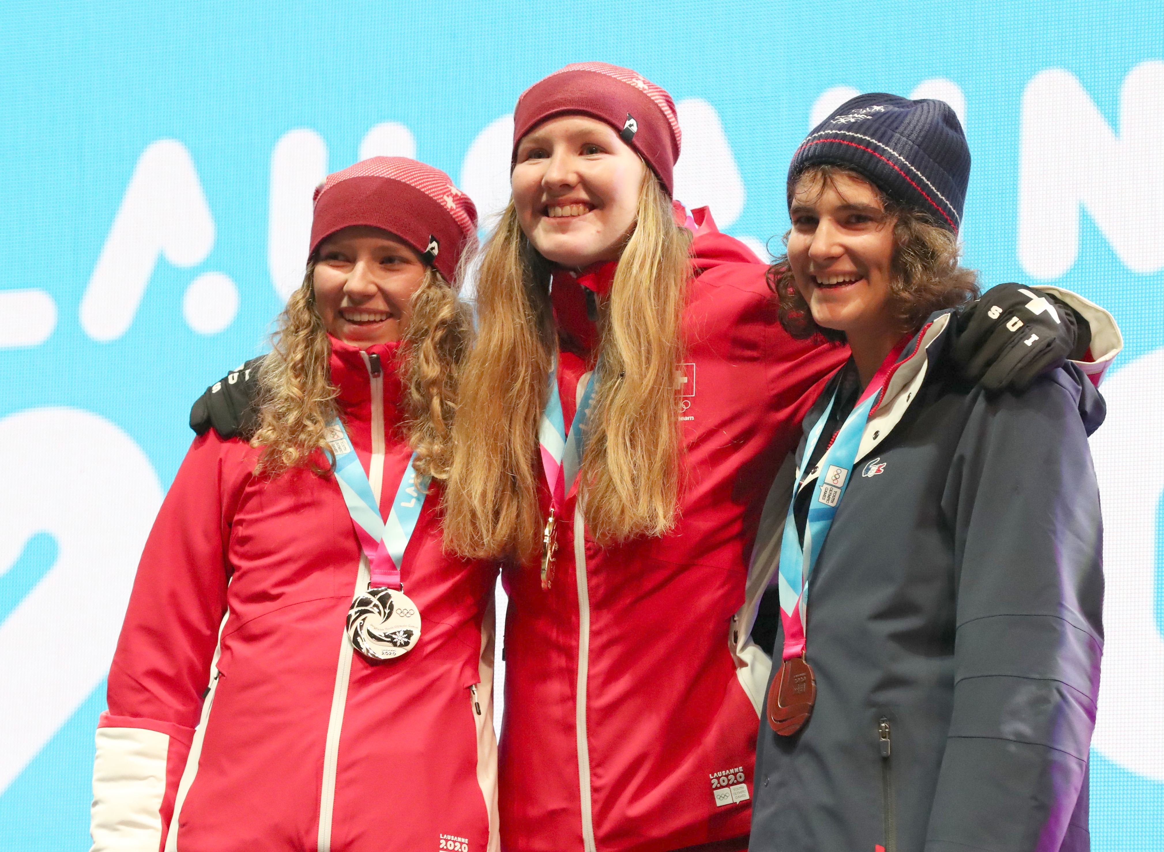 Medal Ceremony Day 1, 2020 Winter Youth Olympics in Lausanne